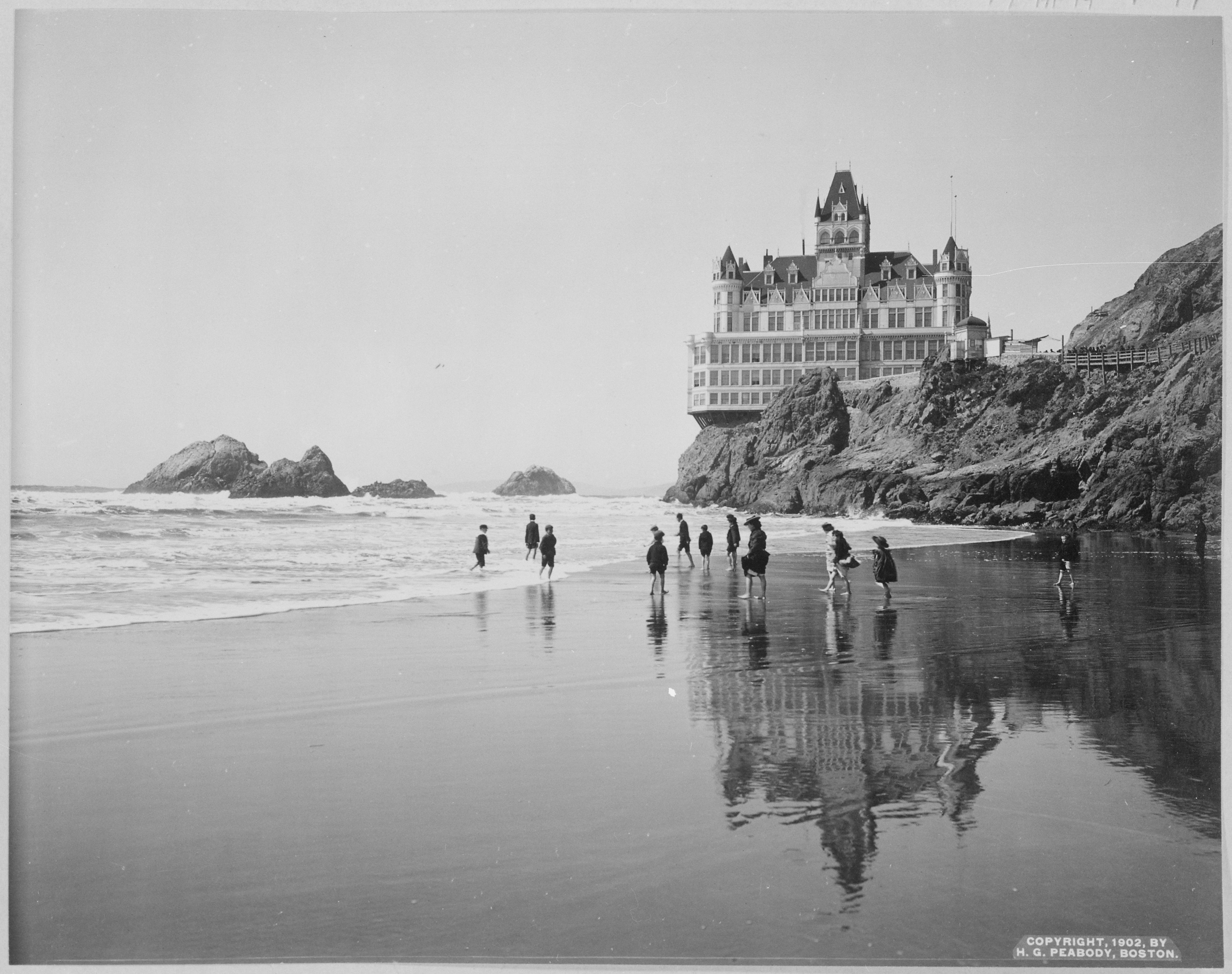 Scope and content: An outing at Ocean Beach in San Francisco. By Peabody, 1902